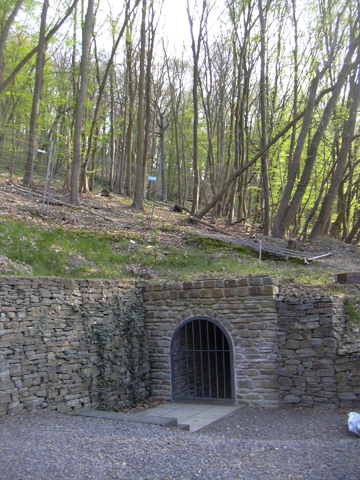 Jakobsbergerhof, Roman qanat